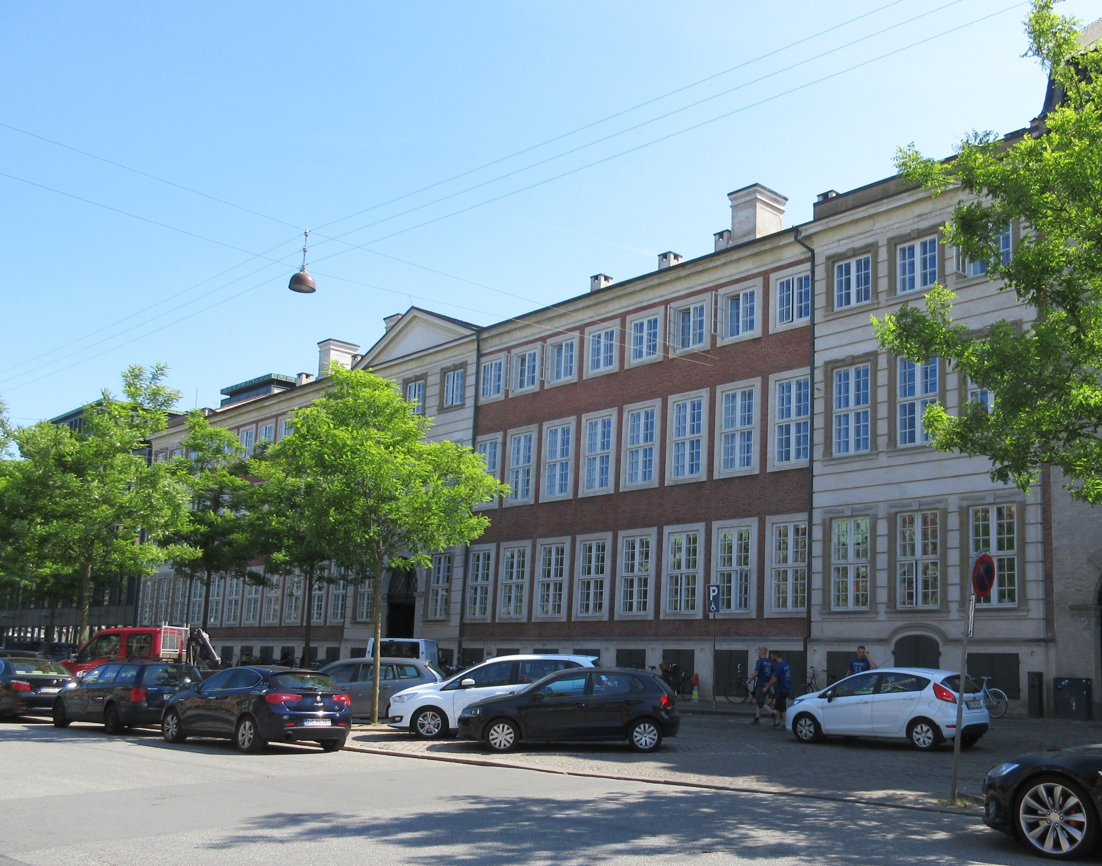 Lerches Gård at Slotsholmsgade 10 in Copenahgen, Denmark